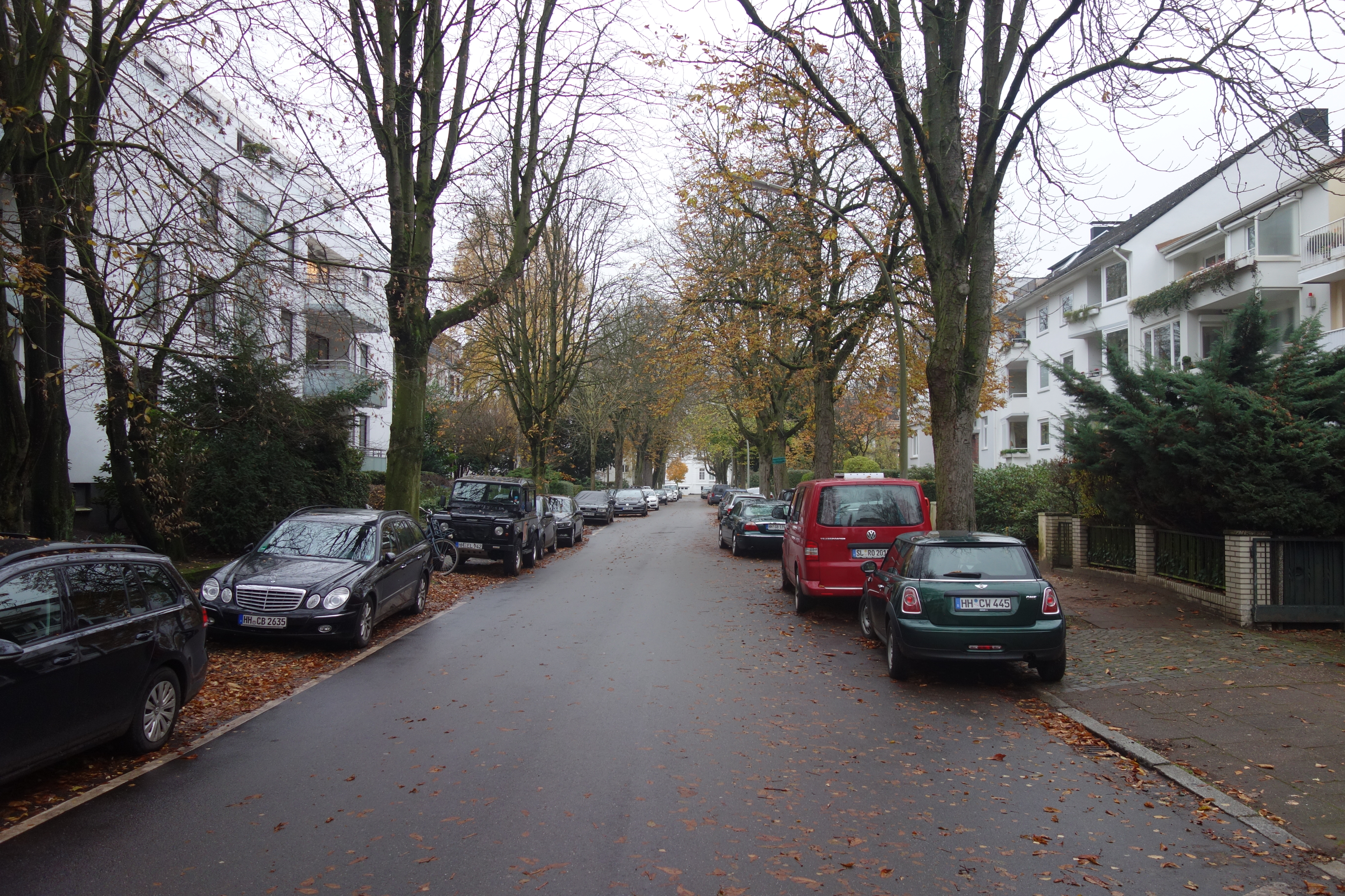 Street in Hamburg